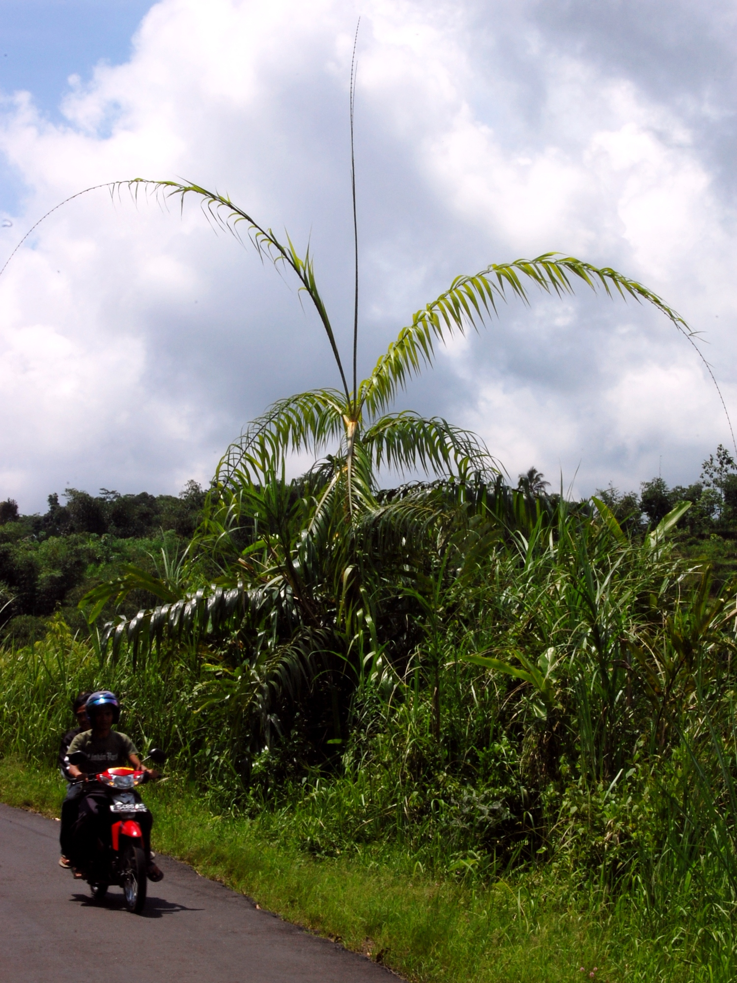 Plectocomia elongata, habits. From Sukabumi, West Java, Indonesia. Note the motorcycle as a comparison.